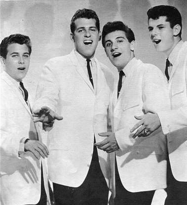 Photo of the vocal group, The Dovells.